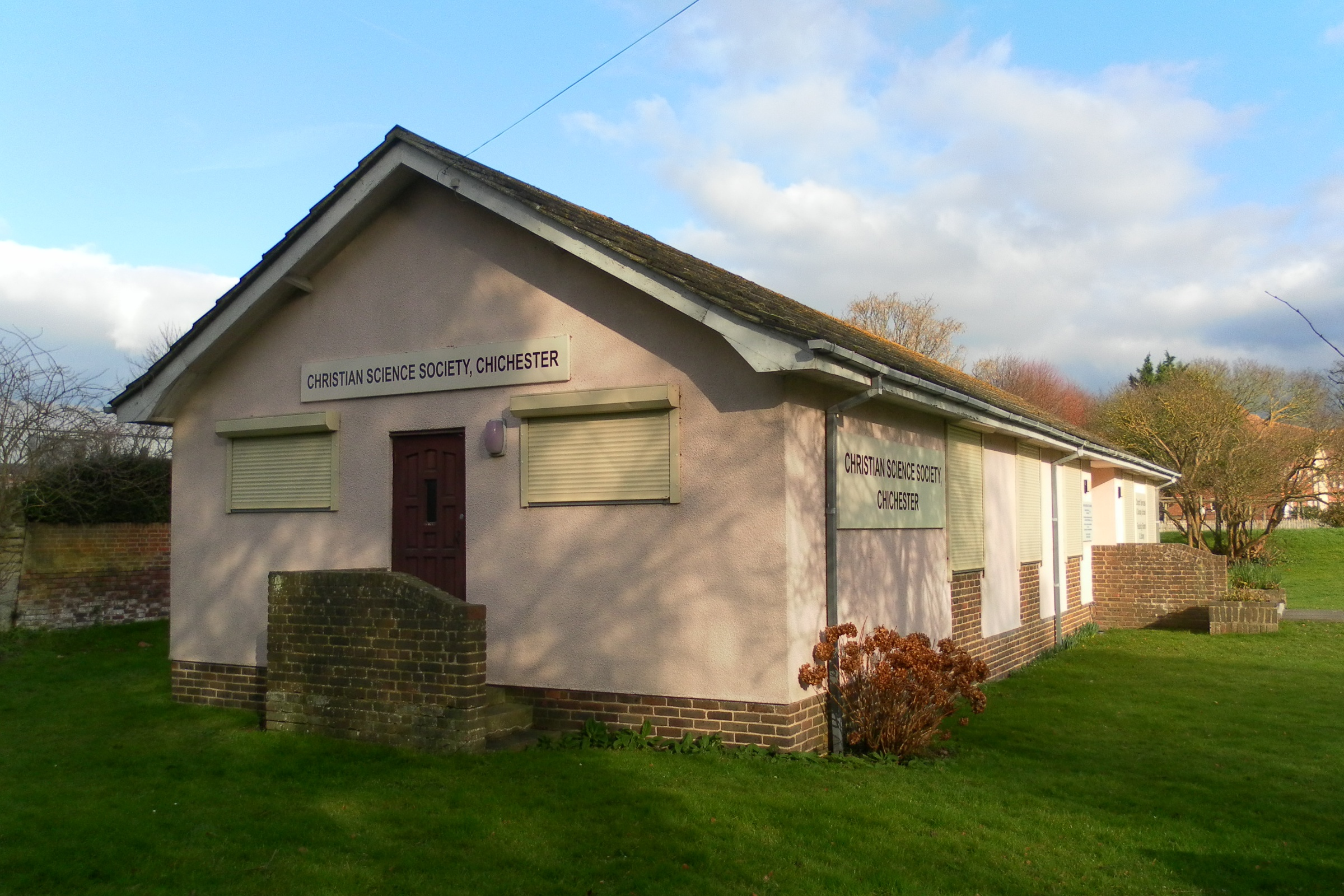 First Church of Christ, Scientist, Whyke Lane, Chichester, West Sussex, England.